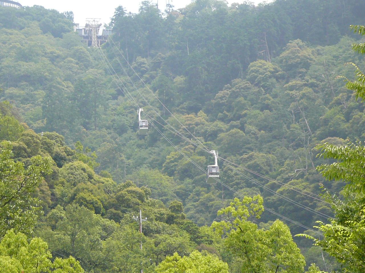 I took this picture of the Mt. Kinka Ropeway in July 2007.